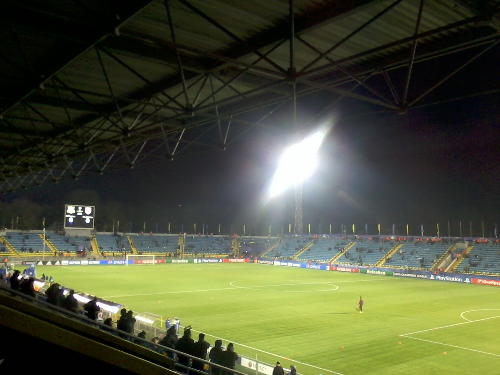 Olimp-2 Stadium in Roston-on-Don. The photo was taken on October 19, 2016, before the game of matchday 3 between FC Rostov and Atlético Madrid. Camera was set on the West tribune, at the sector Z-1 (Russian "З-1")